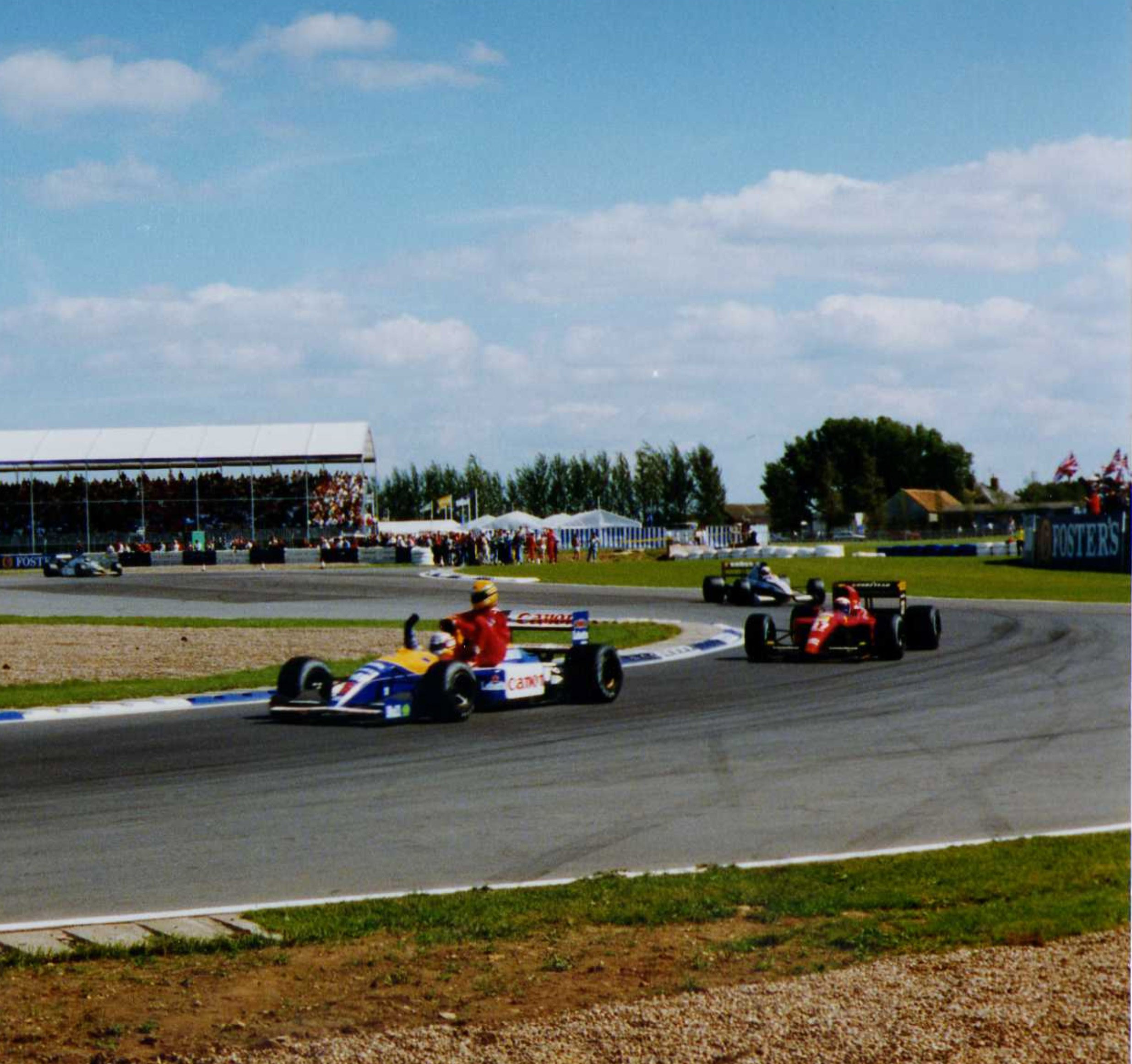 Nigel Mansell gives Ayrton Senna a lift back to the pits on the sidepod of his Williams FW14, after Senna's own McLaren MP4/6 ran out of fuel on the final lap. Alain Prost's Ferrari F1-91 and a Tyrrell 020 follow.